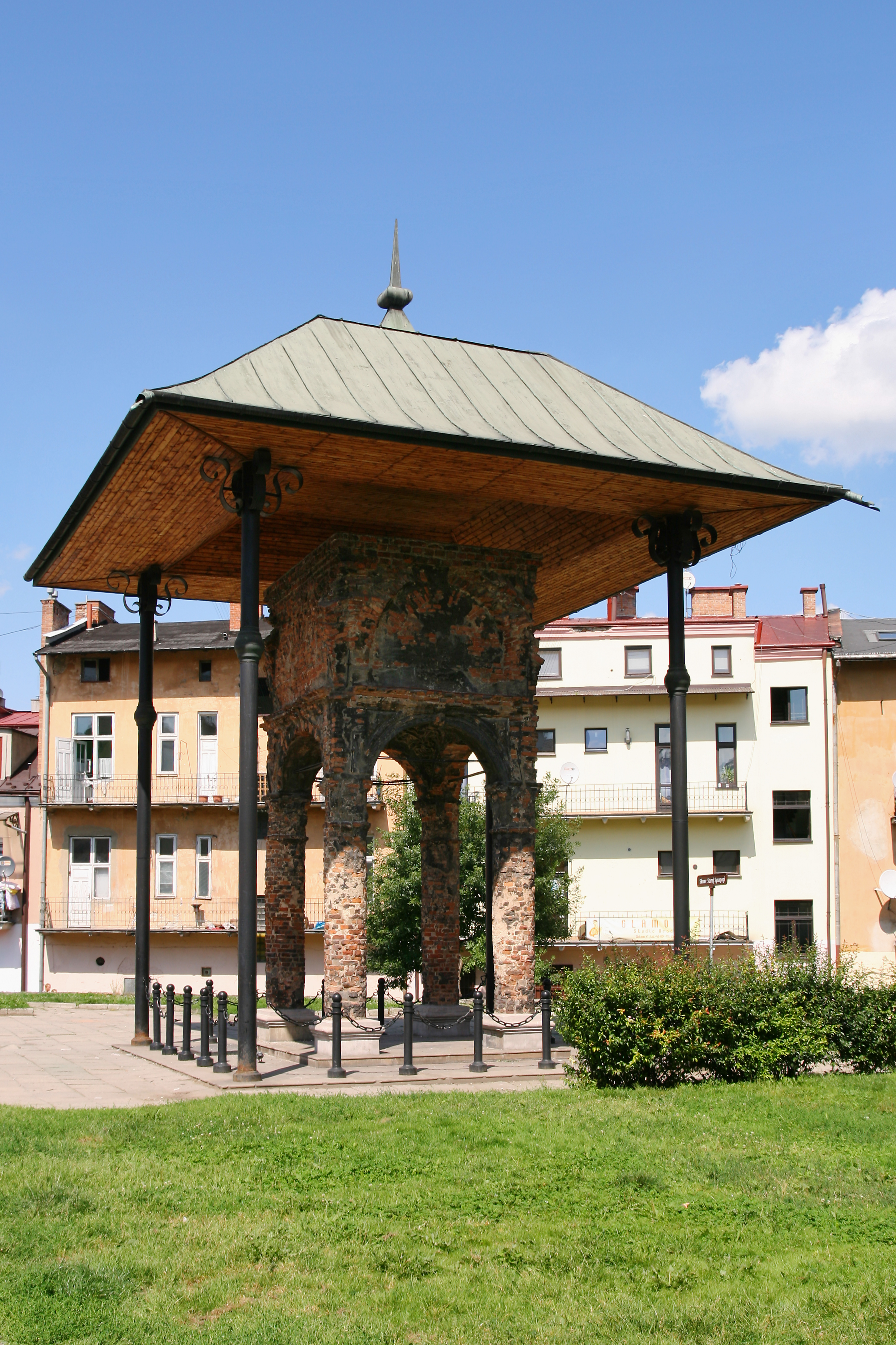 Bimah of Old Synagogue in Tarnów.